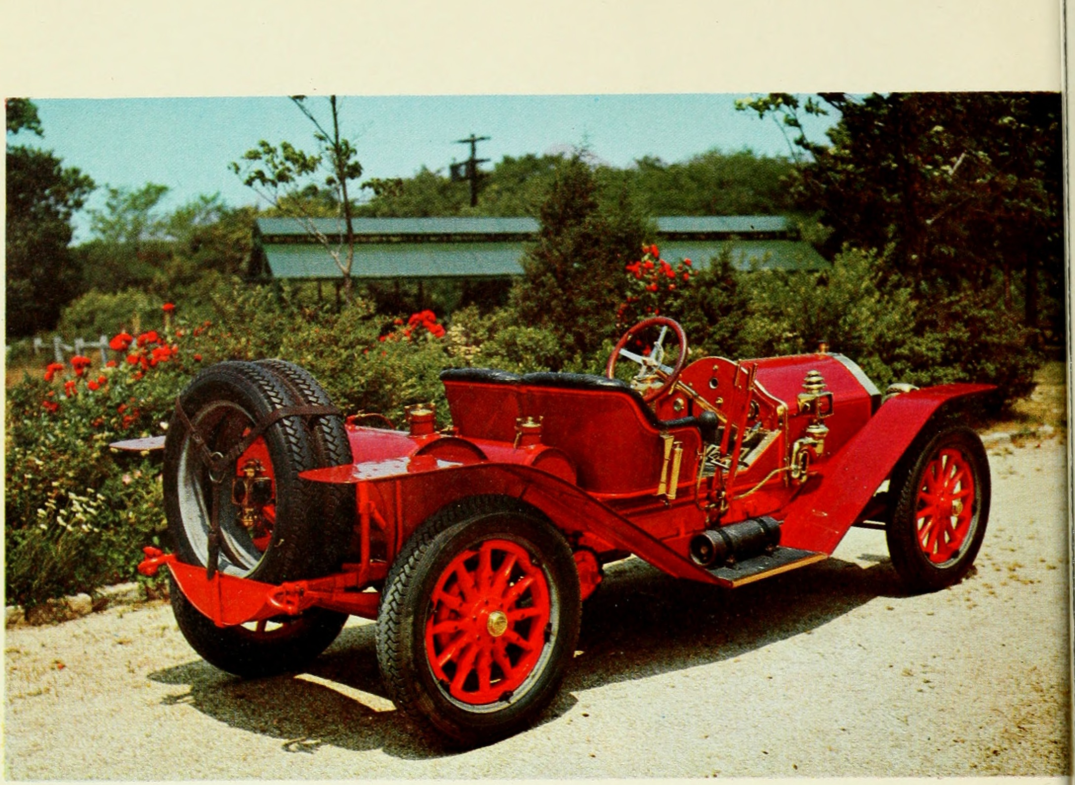 Title: Bulletin - United States National Museum Year: 1877 (1870s) Authors: United States National Museum; Smithsonian Institution; United States. Dept. of the Interior Subjects: Science Publisher: Washington : Smithsonian Institution Press, (etc. ); for sale by the Supt. of Docs. , U. S. Govt Print. Off. Text Appearing Before Image: ' Text Appearing After Image: Photo by Henry Austin Clark, Jr The Simplex automobile was the American luxury car of the early 20th century. This racing type shown here, now in the Long Island Automotive Museum, Southampton, Long Island, N. Y., is almost identical with the Simplex in the U. S. National Museum. (Color plate contributed by Henry Austin Clark, Jr.)